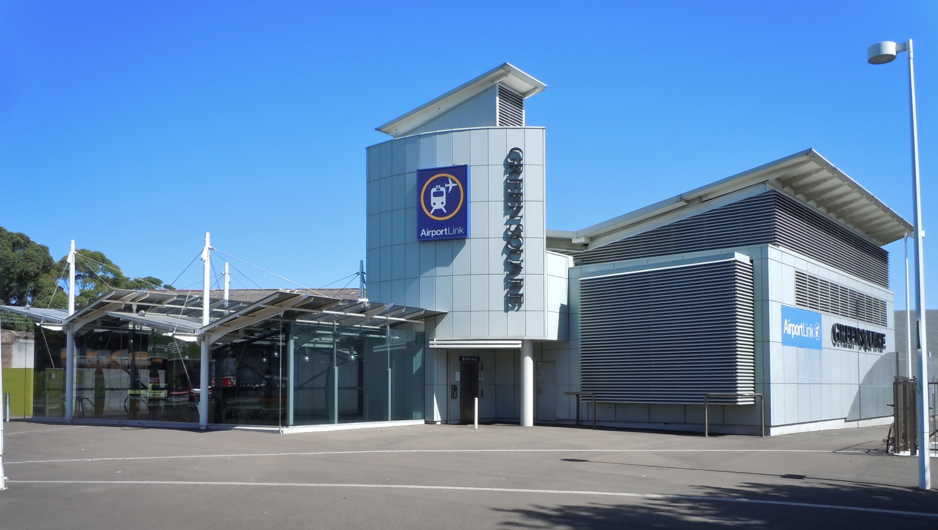 The main entrance to Green Square railway station.